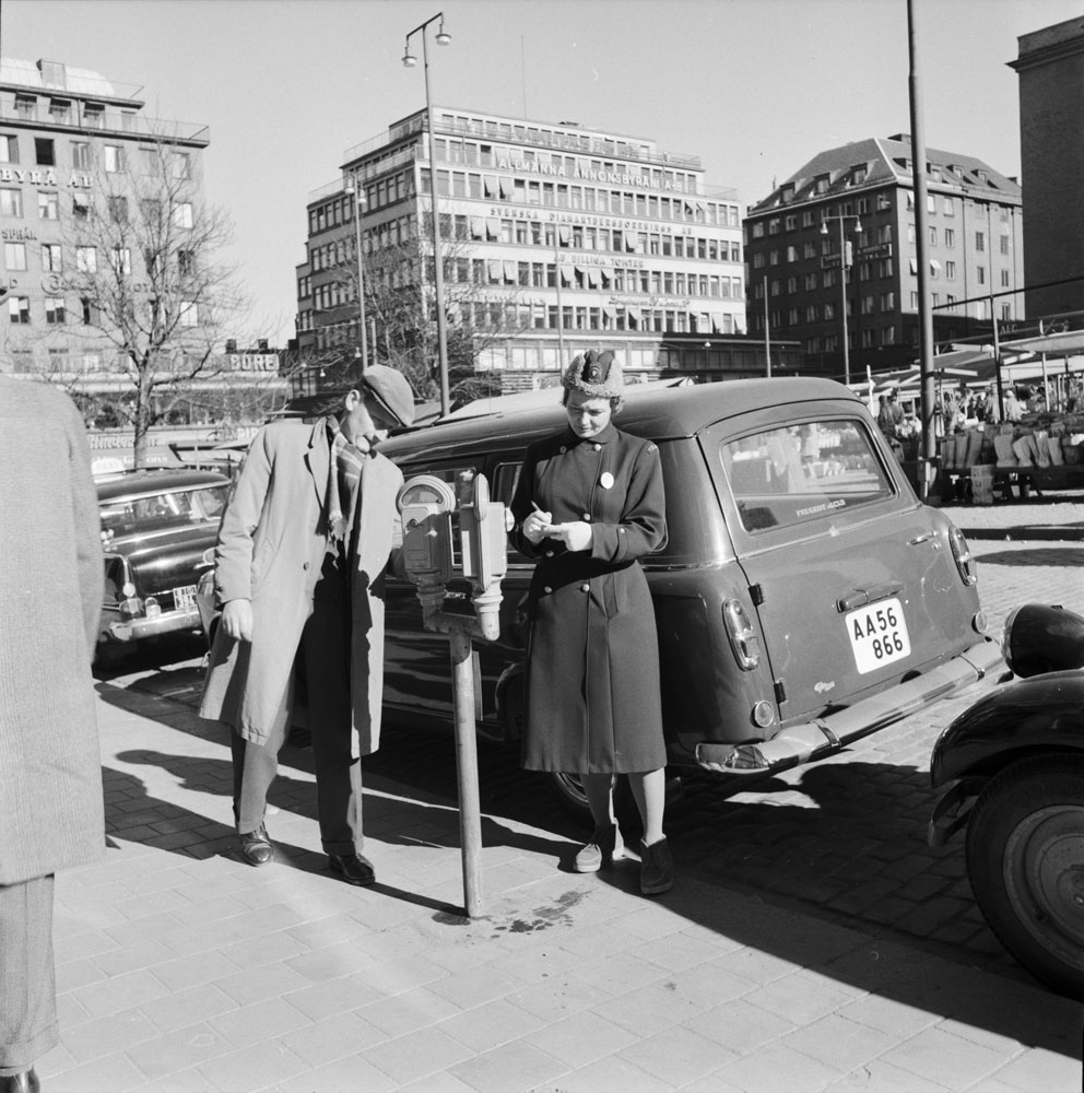 "Meter maid" in Stockholm in 1961, ticketing an illegally parked Peugeot 403 Familiale. "Lapplisa" Sonja Gustavsson Photograph by: Ekelund, Gunnar Date: 1961 Photo Nr: 2017-61-460